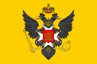 Flag of Pavlovsk, Saint Petersburg, Russia